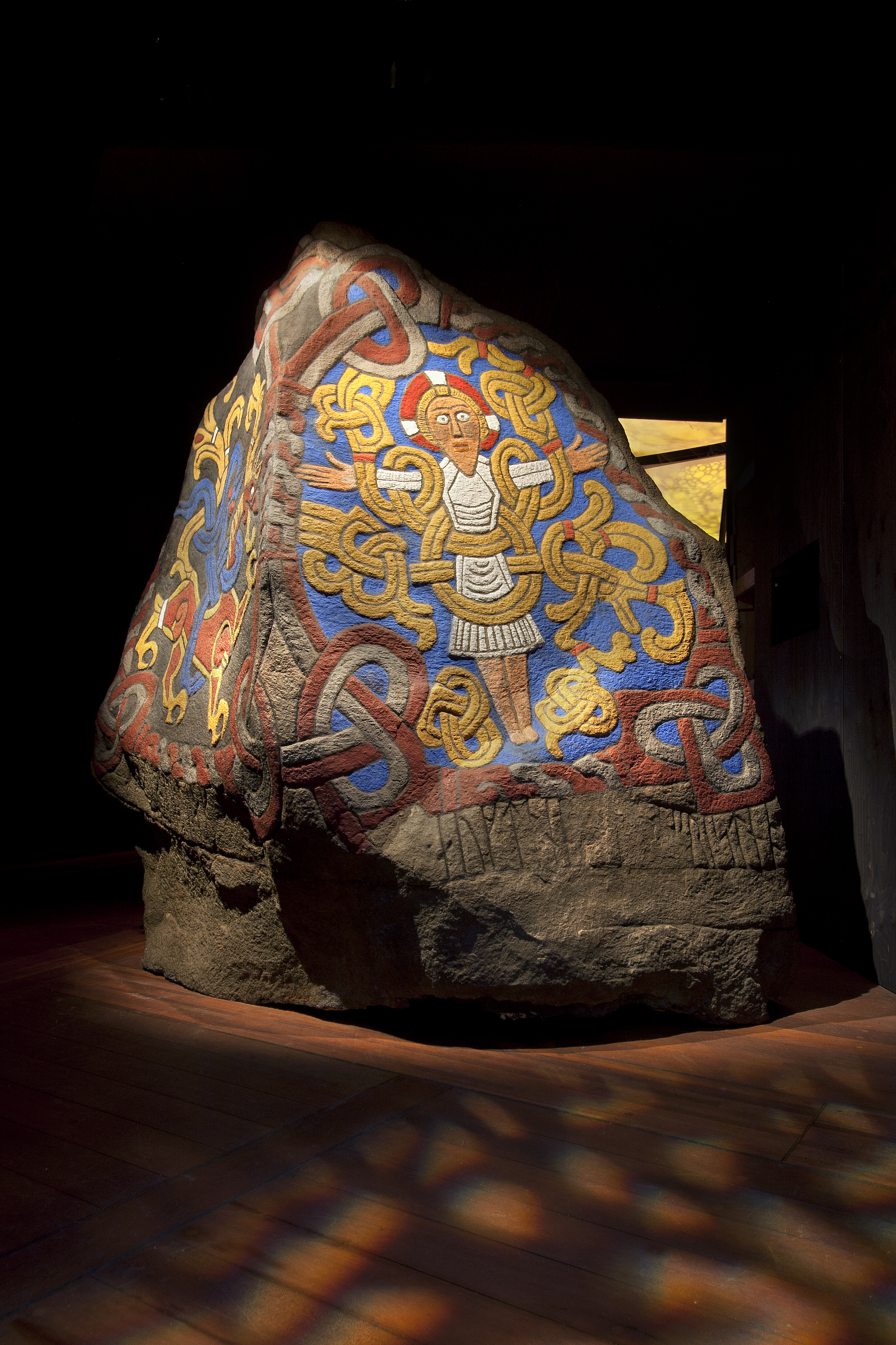 VIKING exhibition - the National Museum of Denmark - Open 22 juni - 17 november 2013.